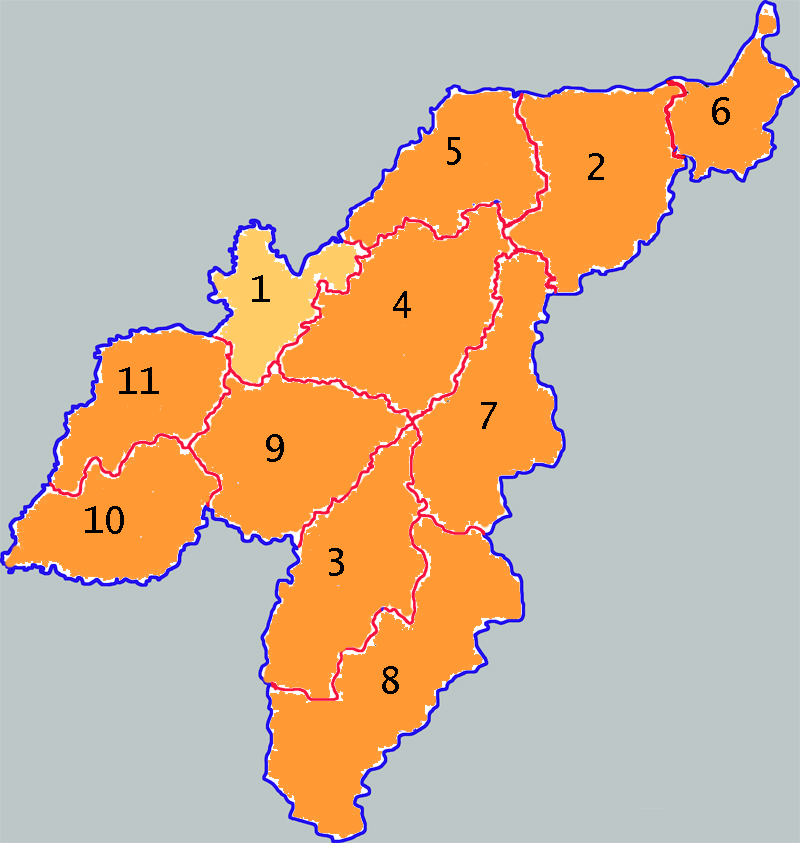 Municipalities of Dezhou city in Shandong province, China